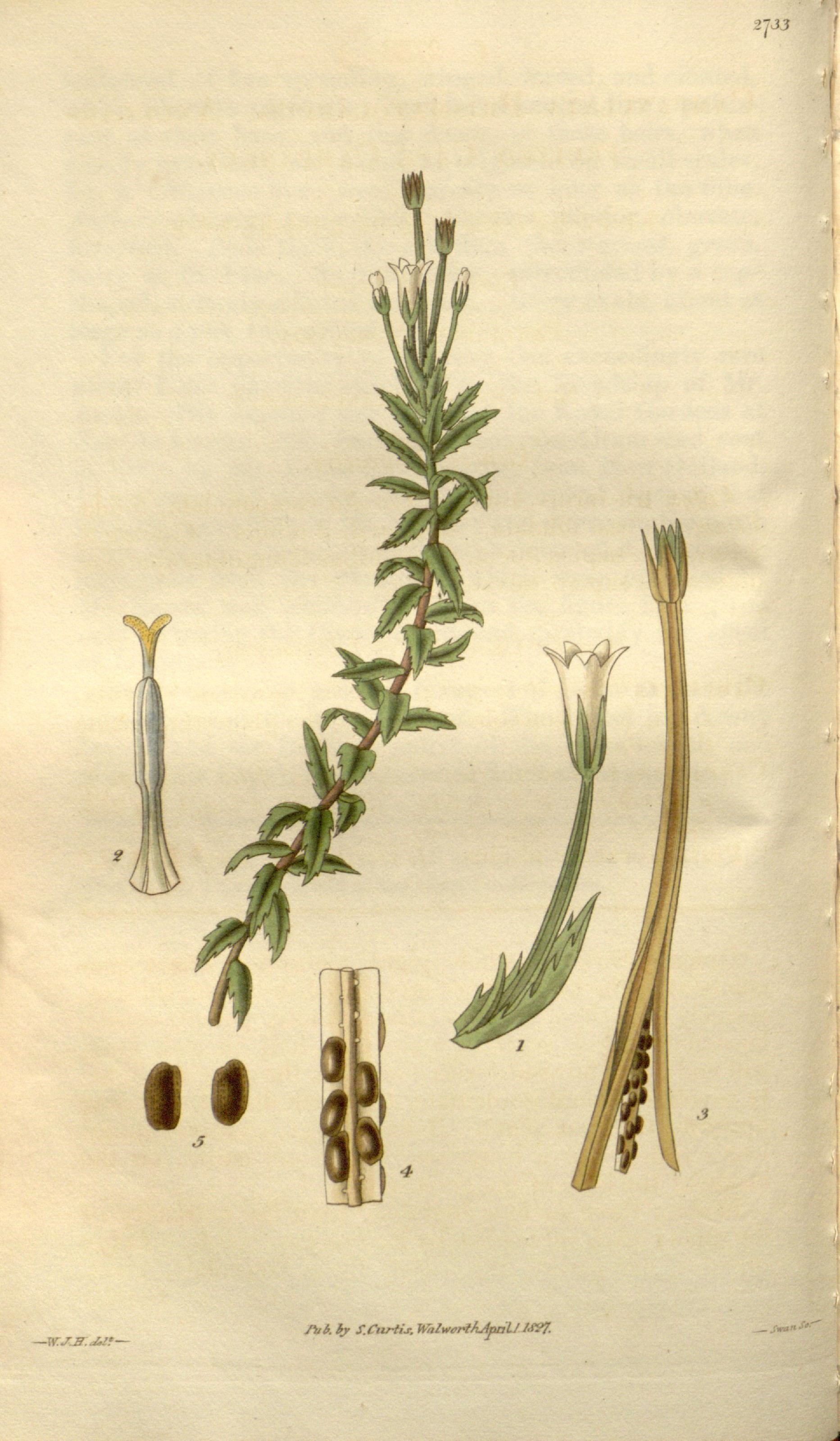 33 —W.SB.JXt— rui. fy S.Cnrtis. WalwertAApaU 1&7.